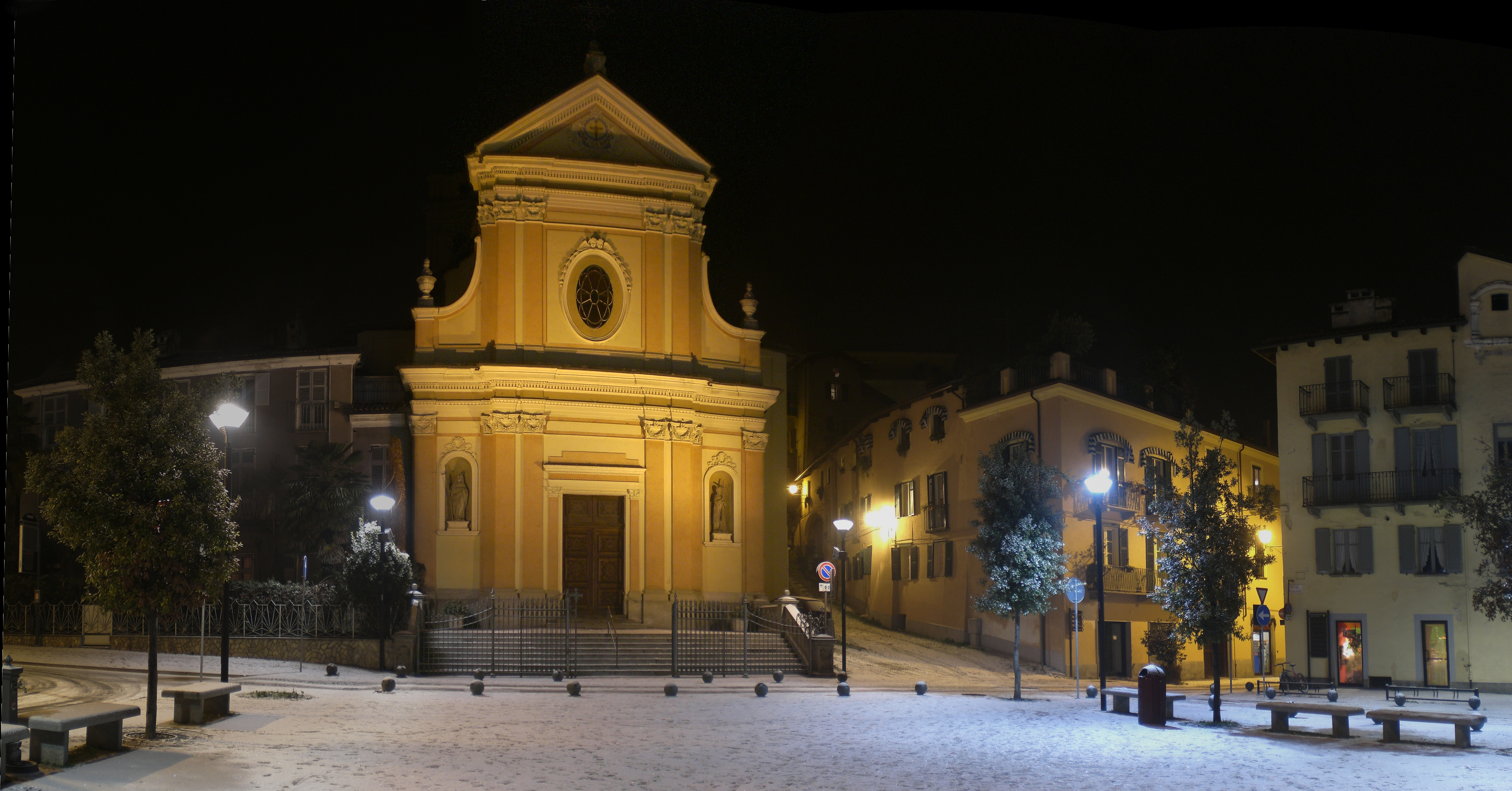 Church of Santa Croce in Pinerolo, a city near Torino in Piedmont, Italy. Chiesa di Santa Croce a Pinerolo, città vicino a Torino, in Piemonte.